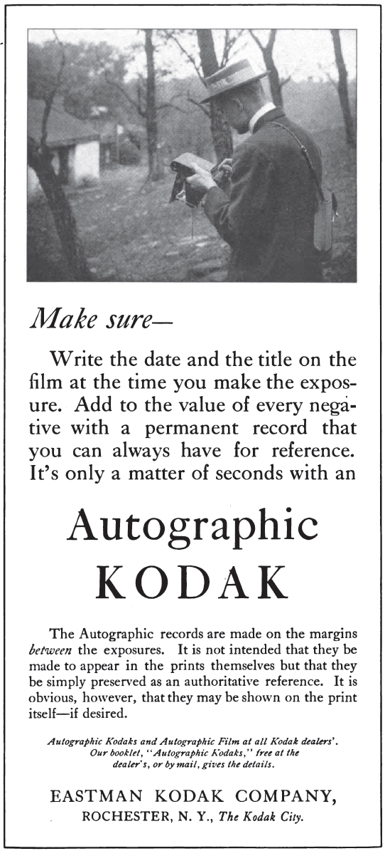 Autographic Kodak magazine advertisement from 1915